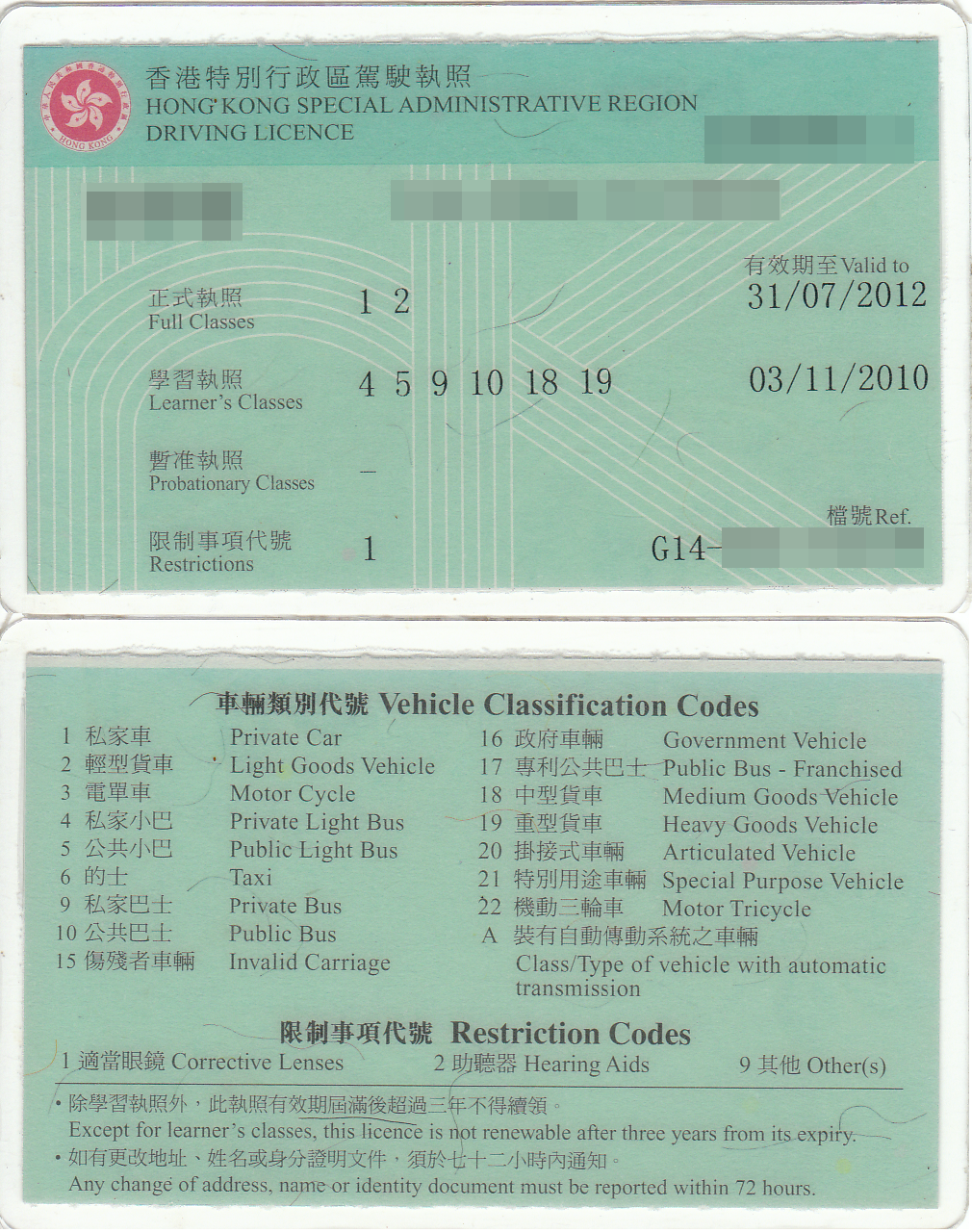 Driving license of Hong Kong.